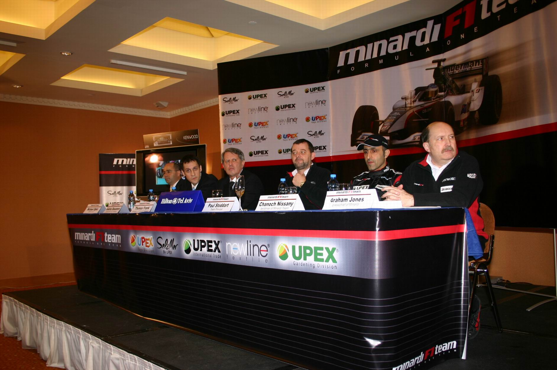 Michael Ophir (CEO of UPEX), Andras Ruszanov (Head of PR and Communications of Chanoch Nissany), Thomas Frank (Manager of Chanoch Nissany), Paul Stoddart (Owner of Minardi F1 Team), Chanoch Nissany and Graham Jones (Presschief of Minardi F1 Team) held the international pressconference at the Hilton Hotel in Tel-Aviv and announced Chanoch Nissany as the first Israeli F1 driver